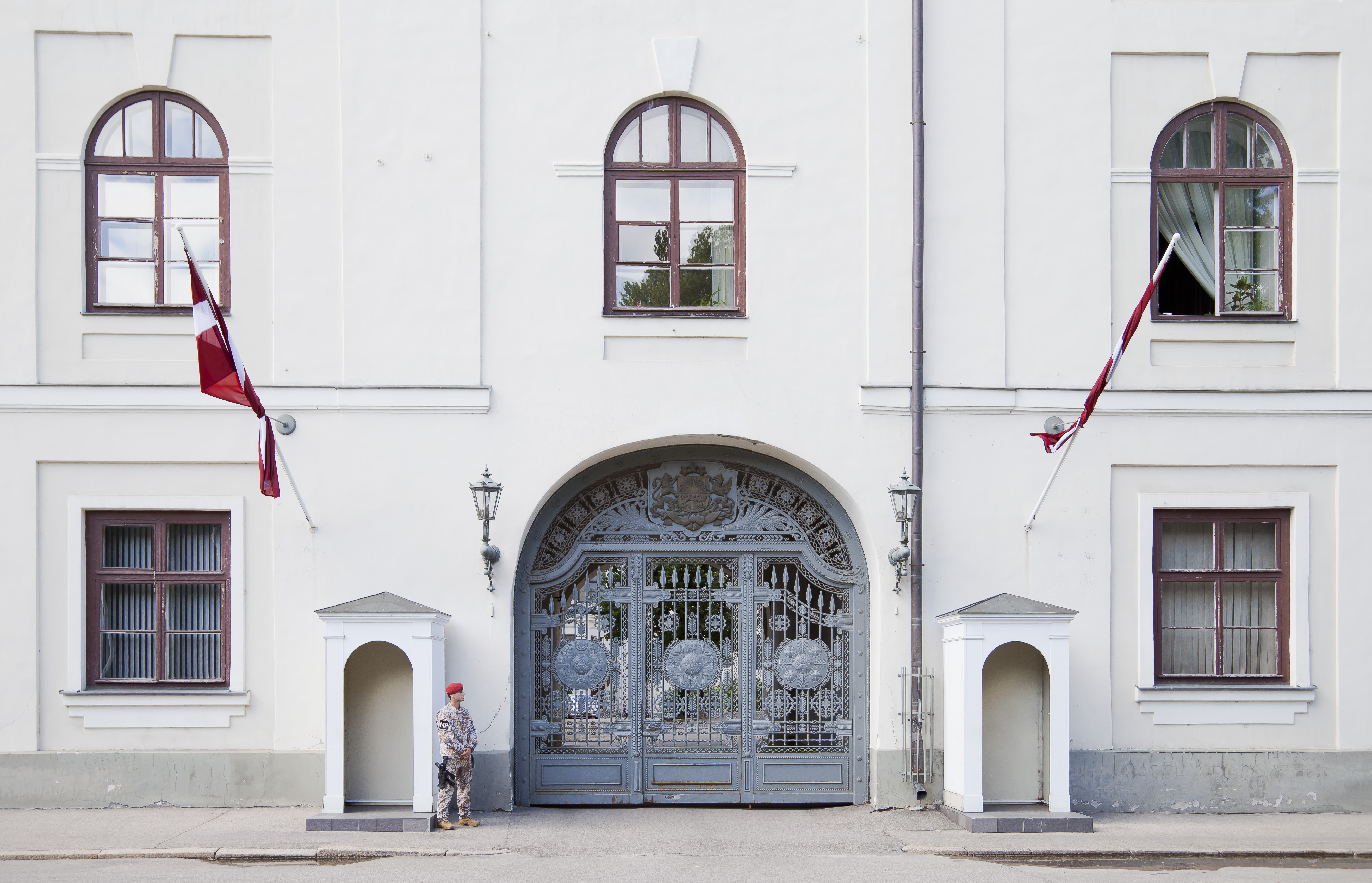 Riga Castle, Riga, Latvia